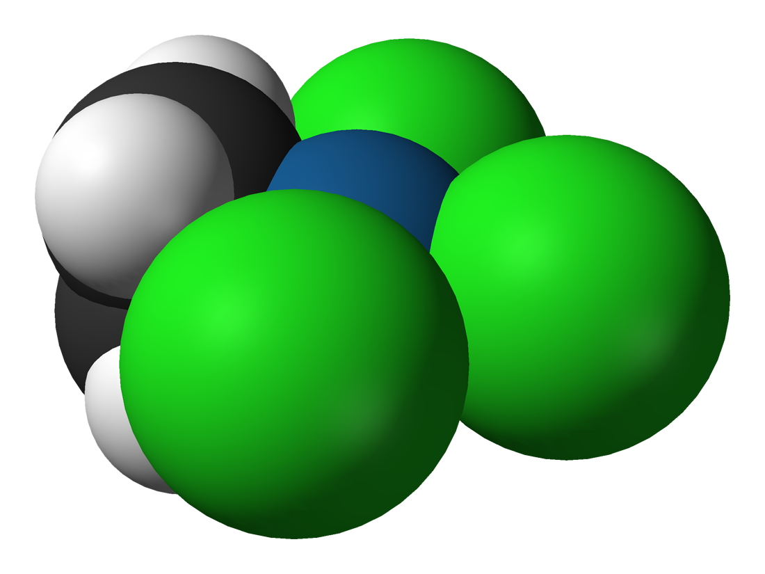 Space-filling model of the [(η2-C2H4)PtCl3]− anion, as found in the crystal structure of Zeise's salt. X-ray crystallographic data from Acta Cryst. (1971). B27, 366-372. Model constructed in CrystalMaker 8.1. Image generated in Accelrys DS Visualizer.